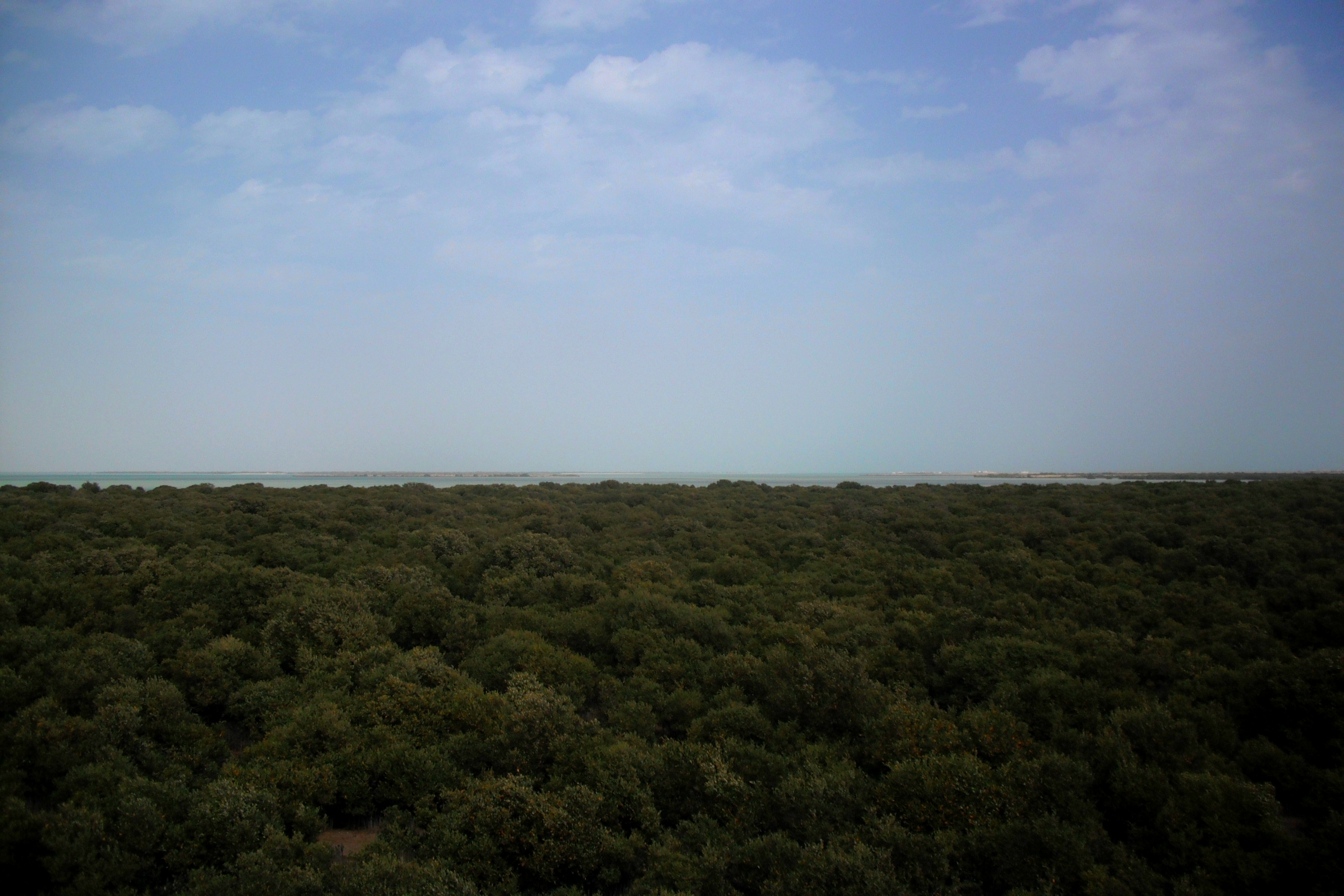 Mangroves at Al Dhakira, Qatar